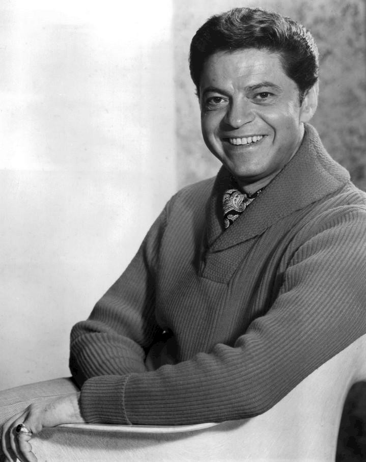 Publicity photo of actor Ross Martin.